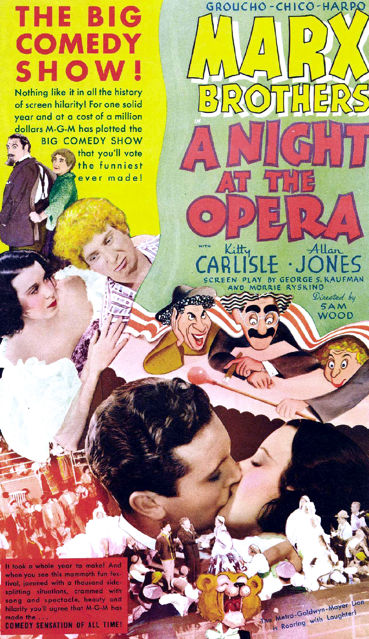 Poster for the 1935 film A Night at the Opera.